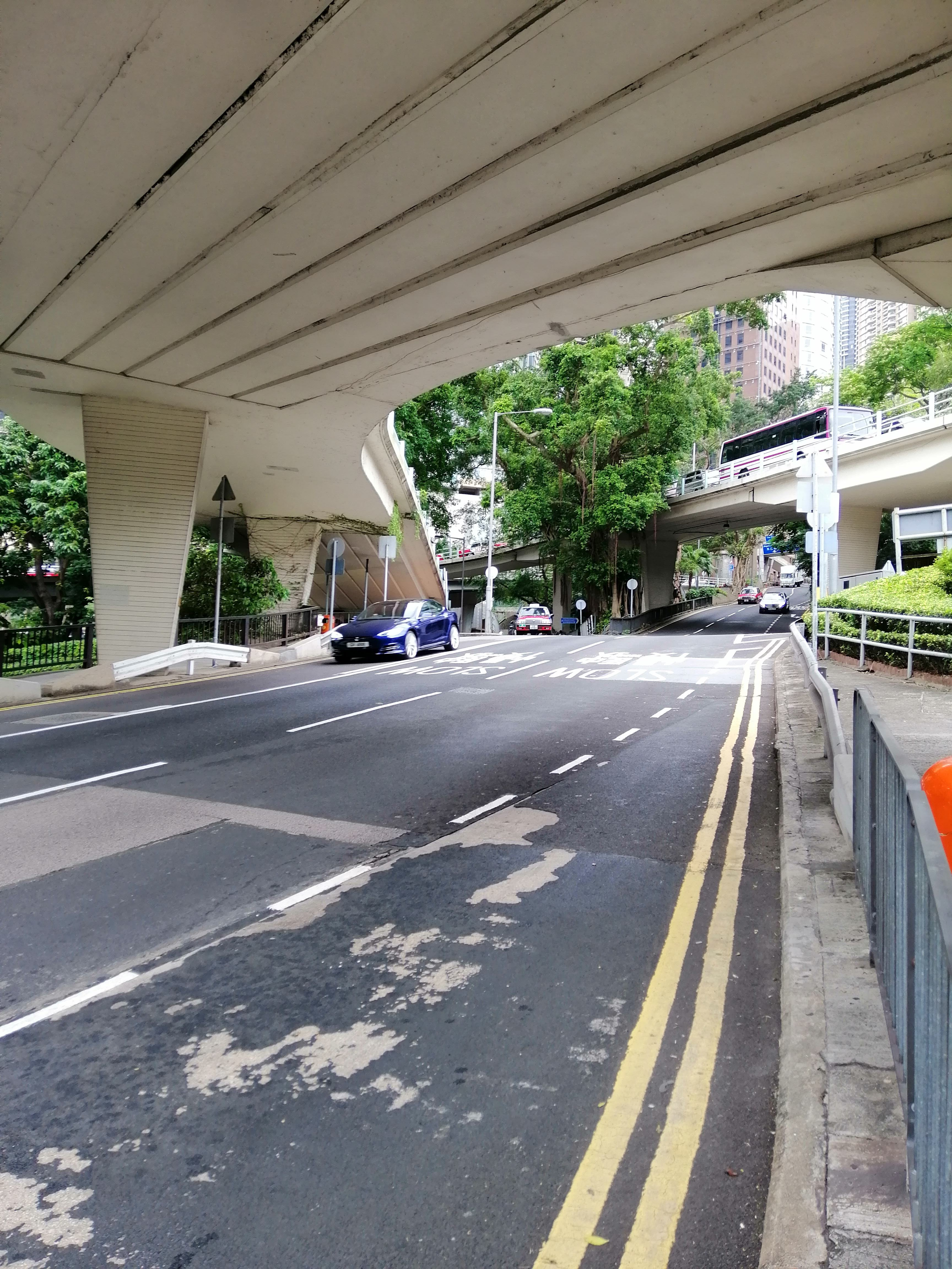 peak tram 2